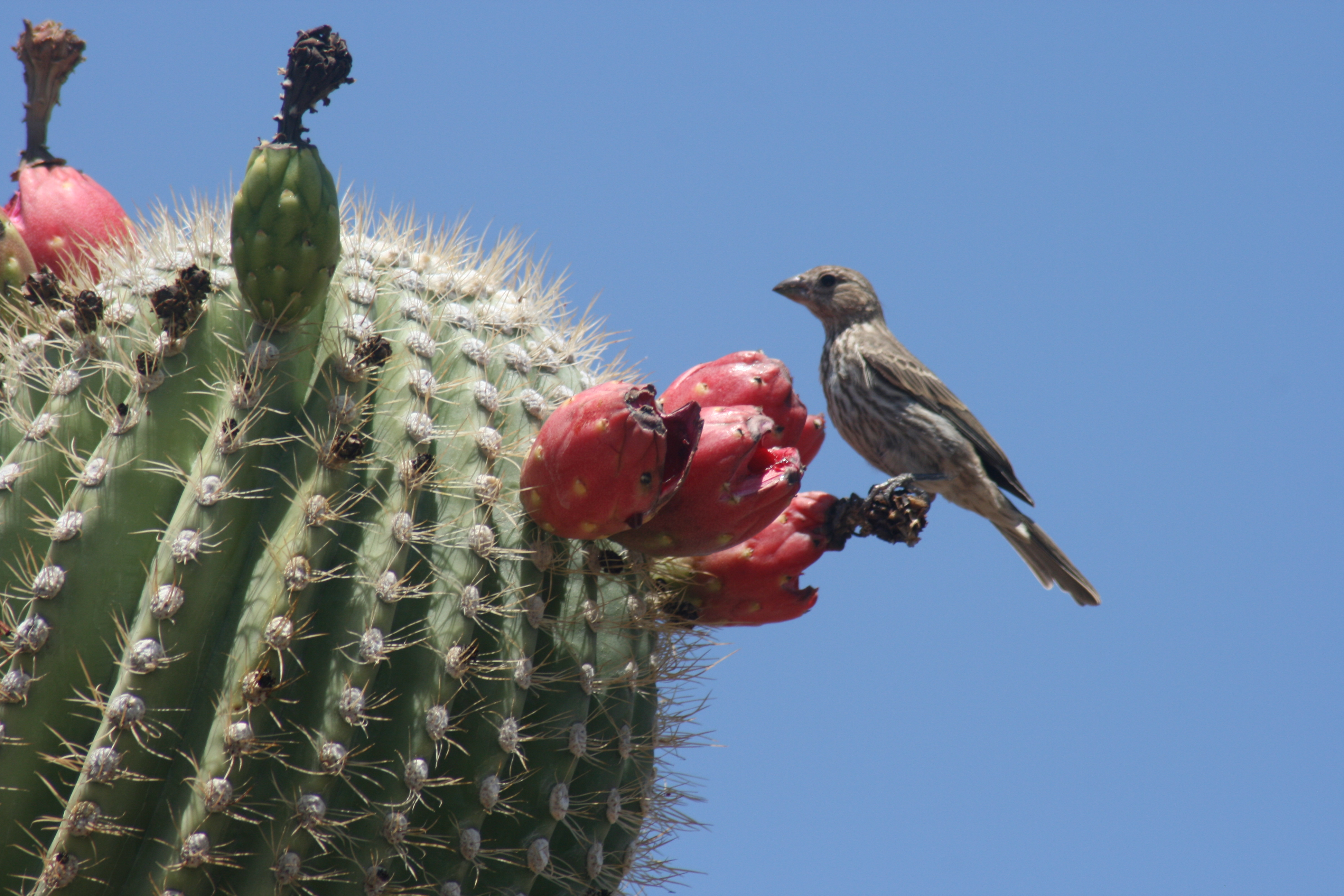 Bird on saguaro cactus fruits.